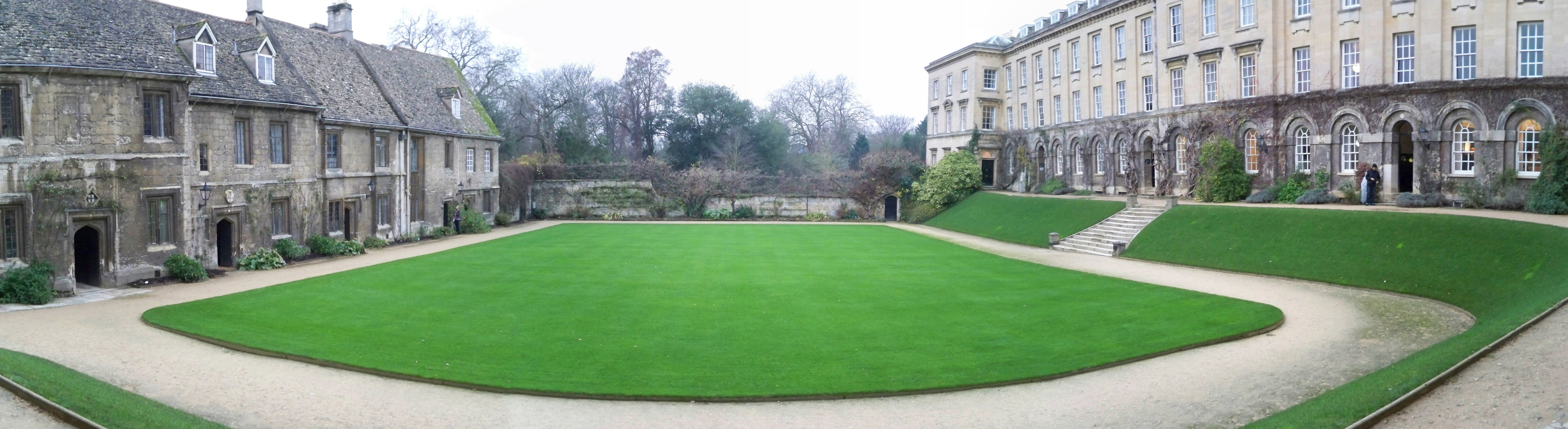 Panoramic image of the main quadrangle of Worcester College, Oxford. Taken facing inwards from the Porters' Lodge.